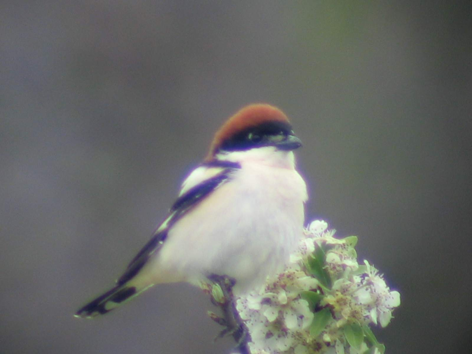 Woodchat shrike (Lanius senator) on a rose bush. Digiscoped somewhere near the Adriatic coast in Montenegro.